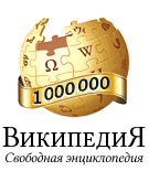 1M articles in Russian Wikipedia logo